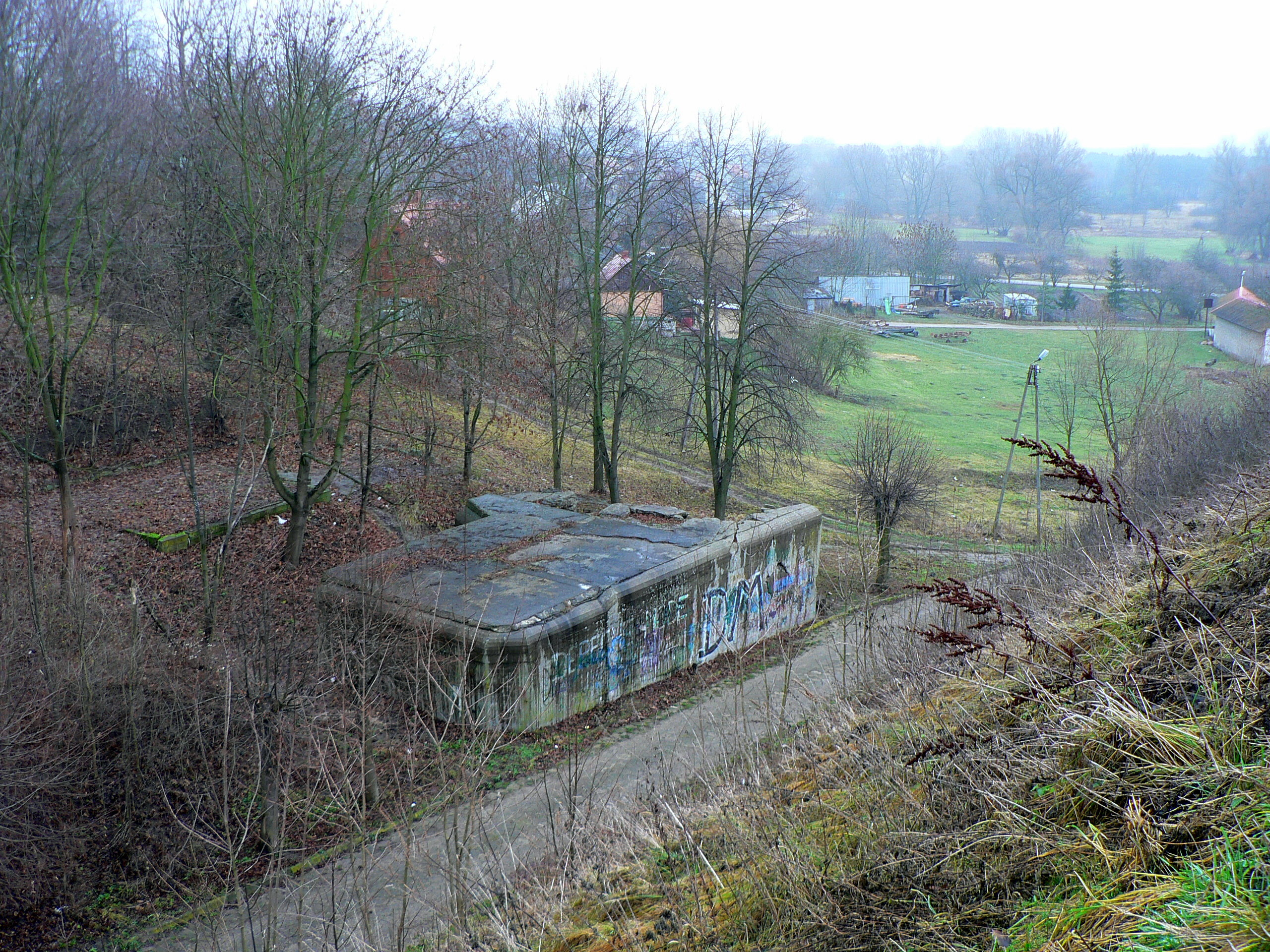 Soviet WW2 bunker in Drohiczyn, Poland.